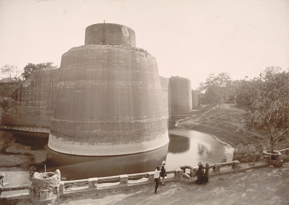 Photograph of Dig Fort in Rajasthan, taken by Raja Deen Dayal & Sons in the 1890s, from the Curzon Collection: 'Views of places proposed to be visited by Their Excellencies Lord & Lady Curzon during Autumn Tour 1902'. Lord Curzon served as Viceroy of India between 1899 and 1905. Dig was the first capital of the Sinsini Jats established by Badan Singh (r.1722-33). Later the captial was moved to Bharatpur. The fort was built by his son Suraj Mal (r.1533-63) in 1730. This view shows the Lakha Burj at the north-west corner, the largest of twelve massive bastions reinforcing the fort walls, and the moat which encircles the fort.